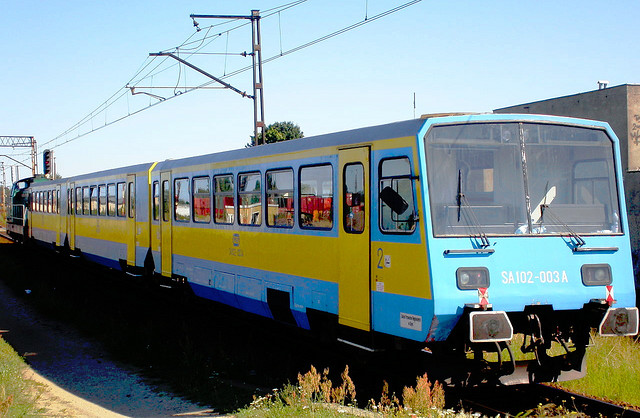 2008.07.31 - Gdynia Cisowa SM42-485 pulling empty SA102-003.